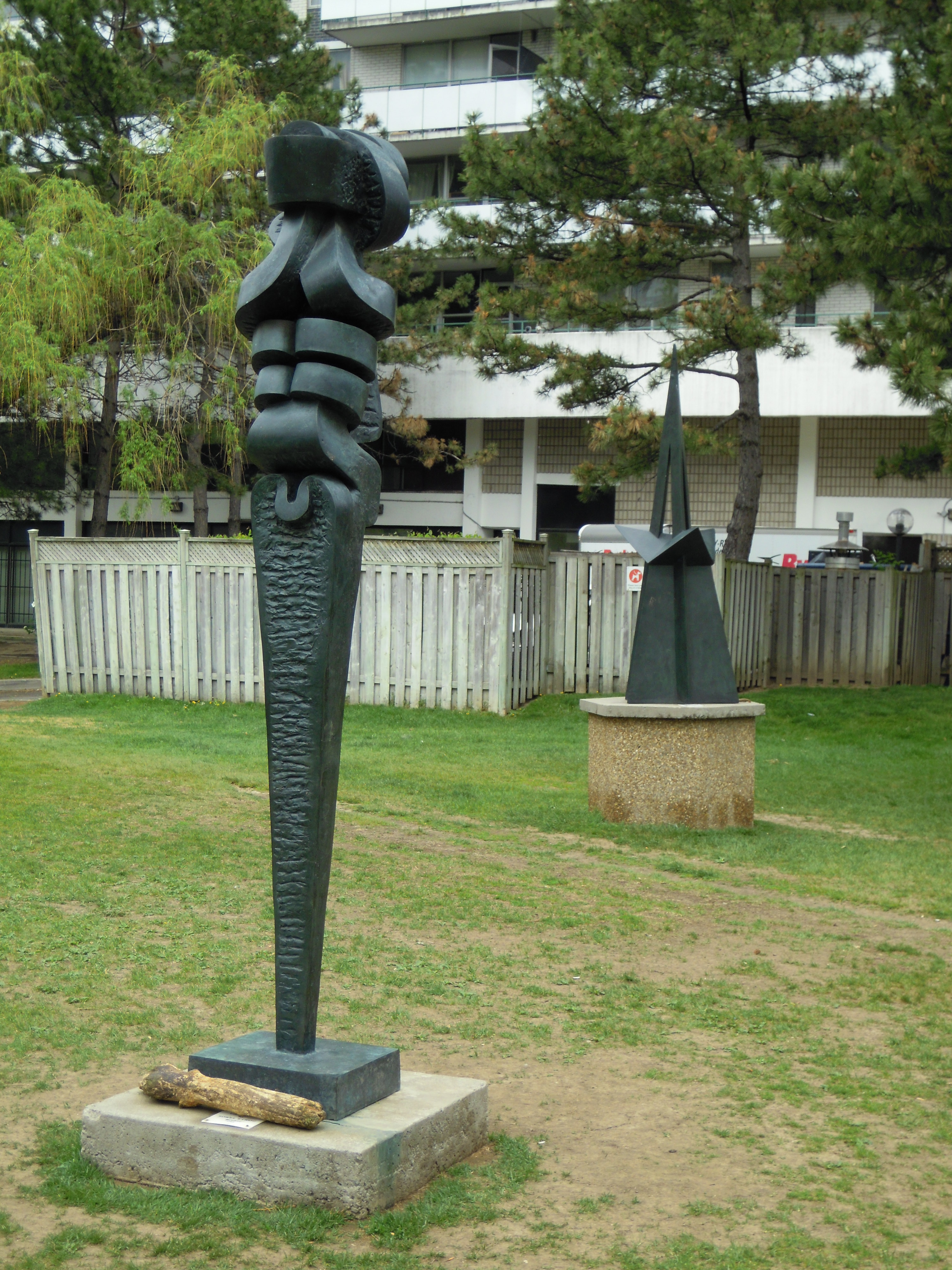 "Capriccio" (1962) by Sorel Etrog and "Emerging Tower" (1998) by Al Green, located in the Al Green Sculpture Park in Toronto, Ontario, Canada.